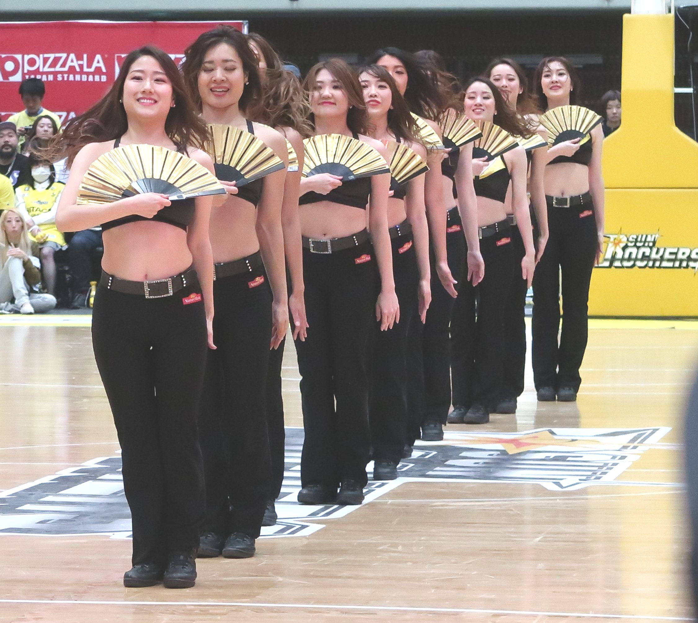 Sun Rocker Girls is a Japanese professional basketball team Cheerleading team based in Tokyo and sponsored by Hitachi.